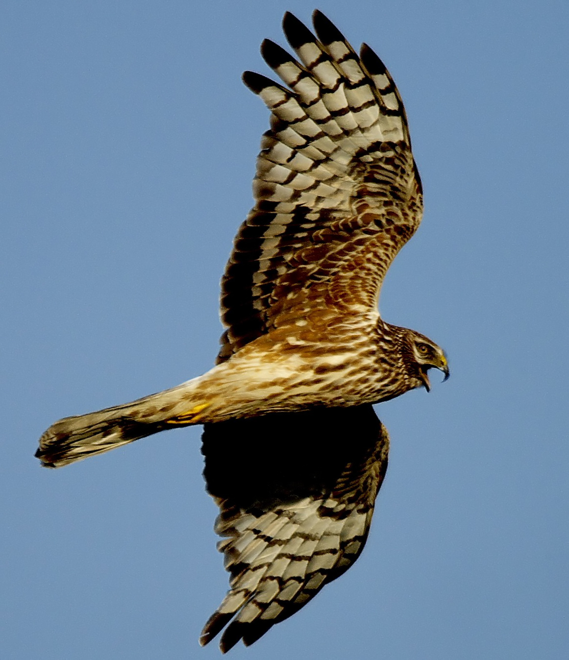 A female Hen Harrier alarming at nest site. Image taken in south Kintyre, Argyll and Bute, Scotland